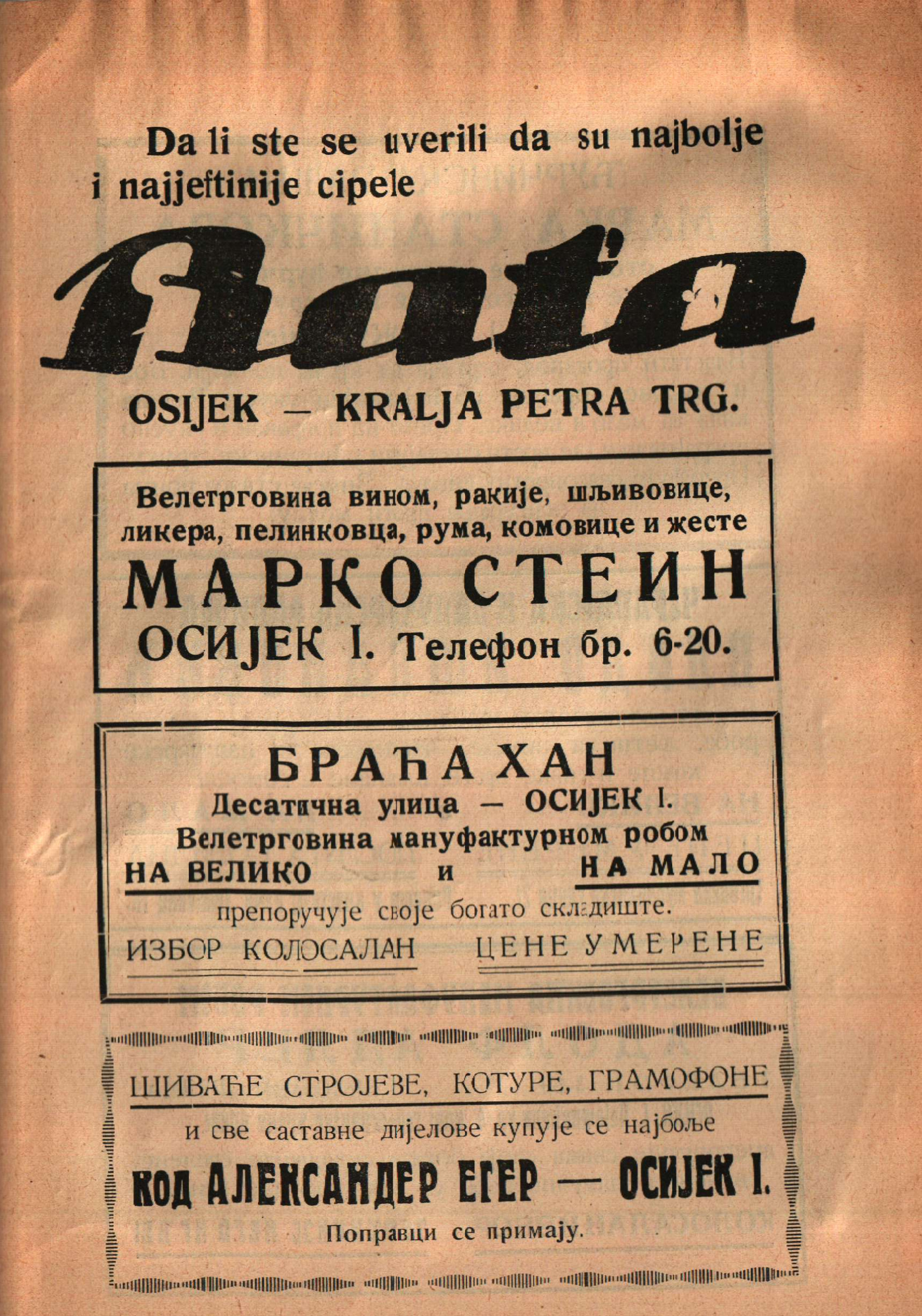 Voyvoda Vuk Popovich. 1927 calendar.